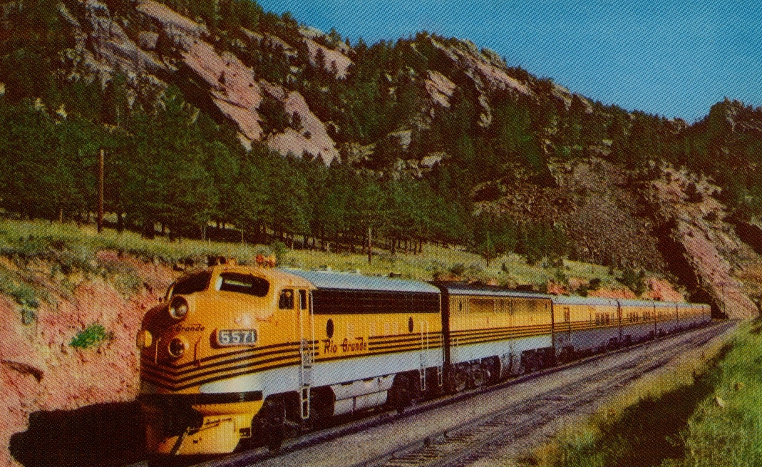 Postcard photo of the Denver and Rio Grande train "The Prospector", which traveled between Denver and Salt Lake City.